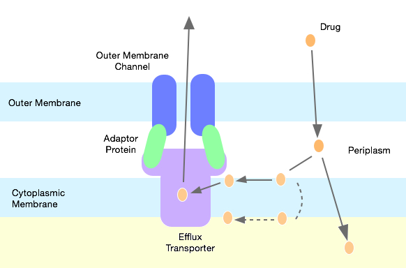 The Triparitate complex is comprised of the inner-membrane bound RND protein, the outer membrane protein, and a periplasmic adaptor protein connecting the two.